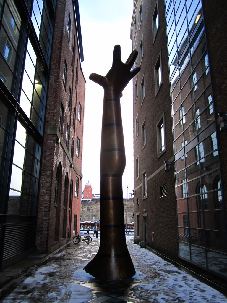 'Reaching for the Stars' by Kenneth Armitage, Stephenson's Lane